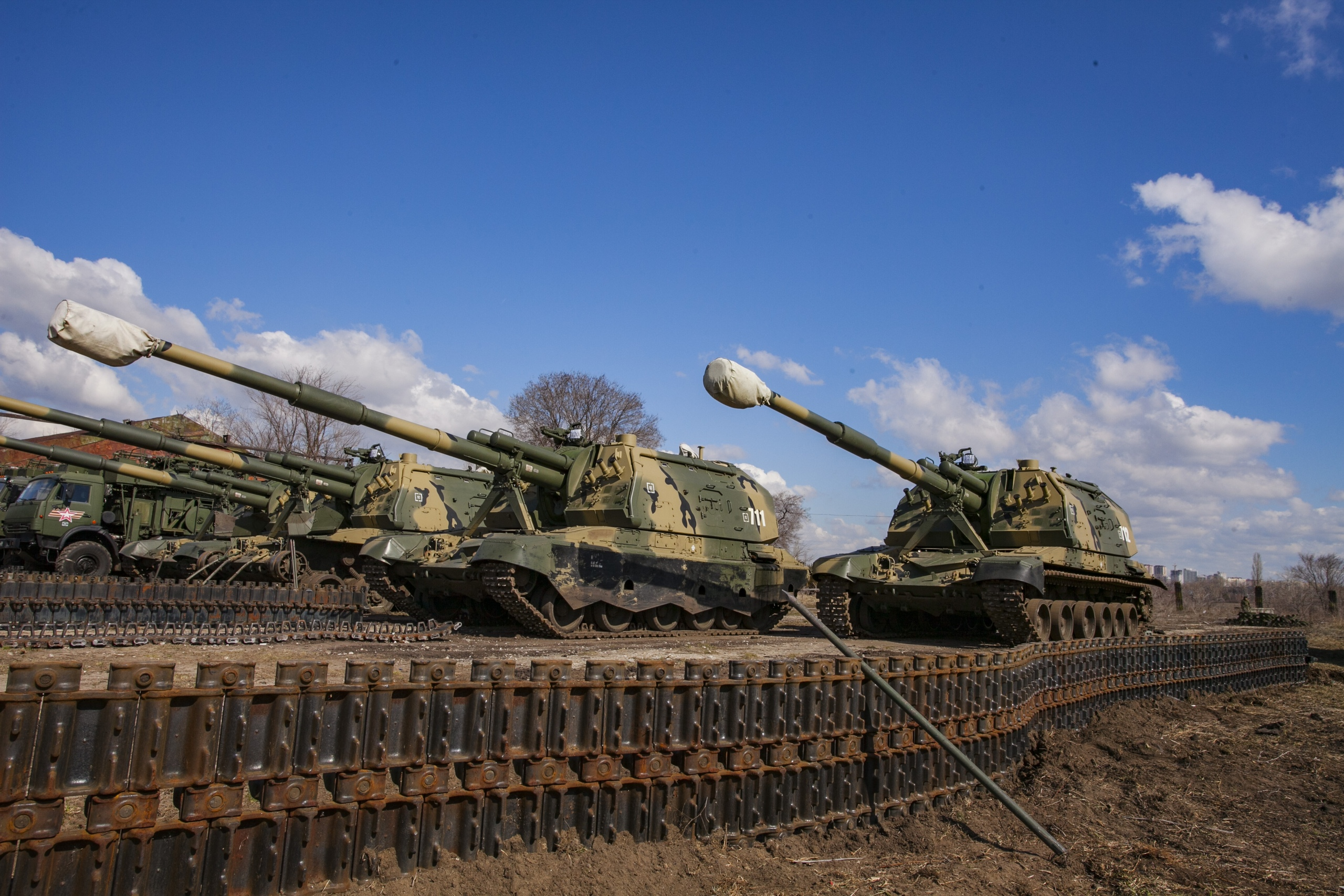 2S19M2 Msta-S.